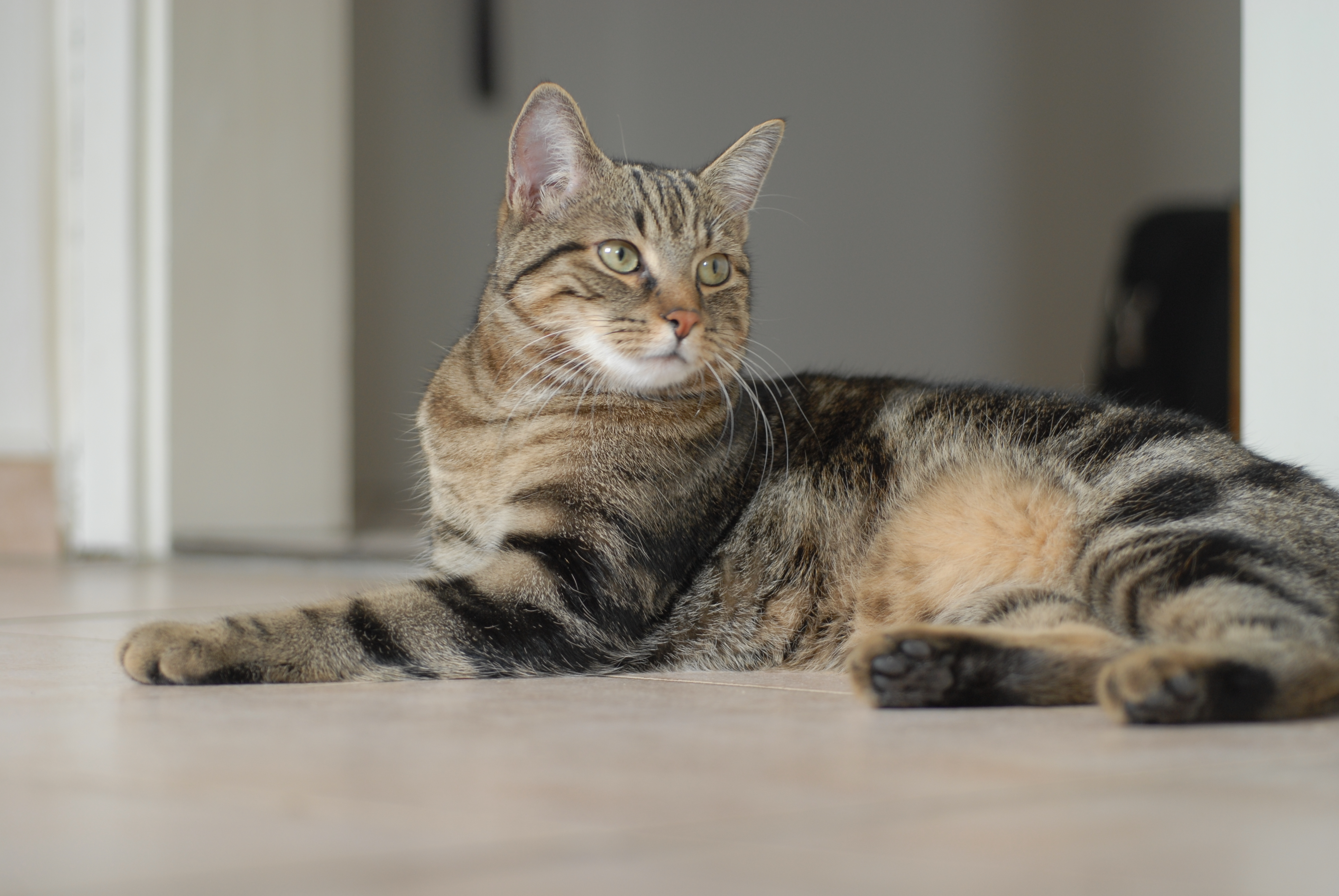 European shorthair cat, procumbent; My cat, named Quincy